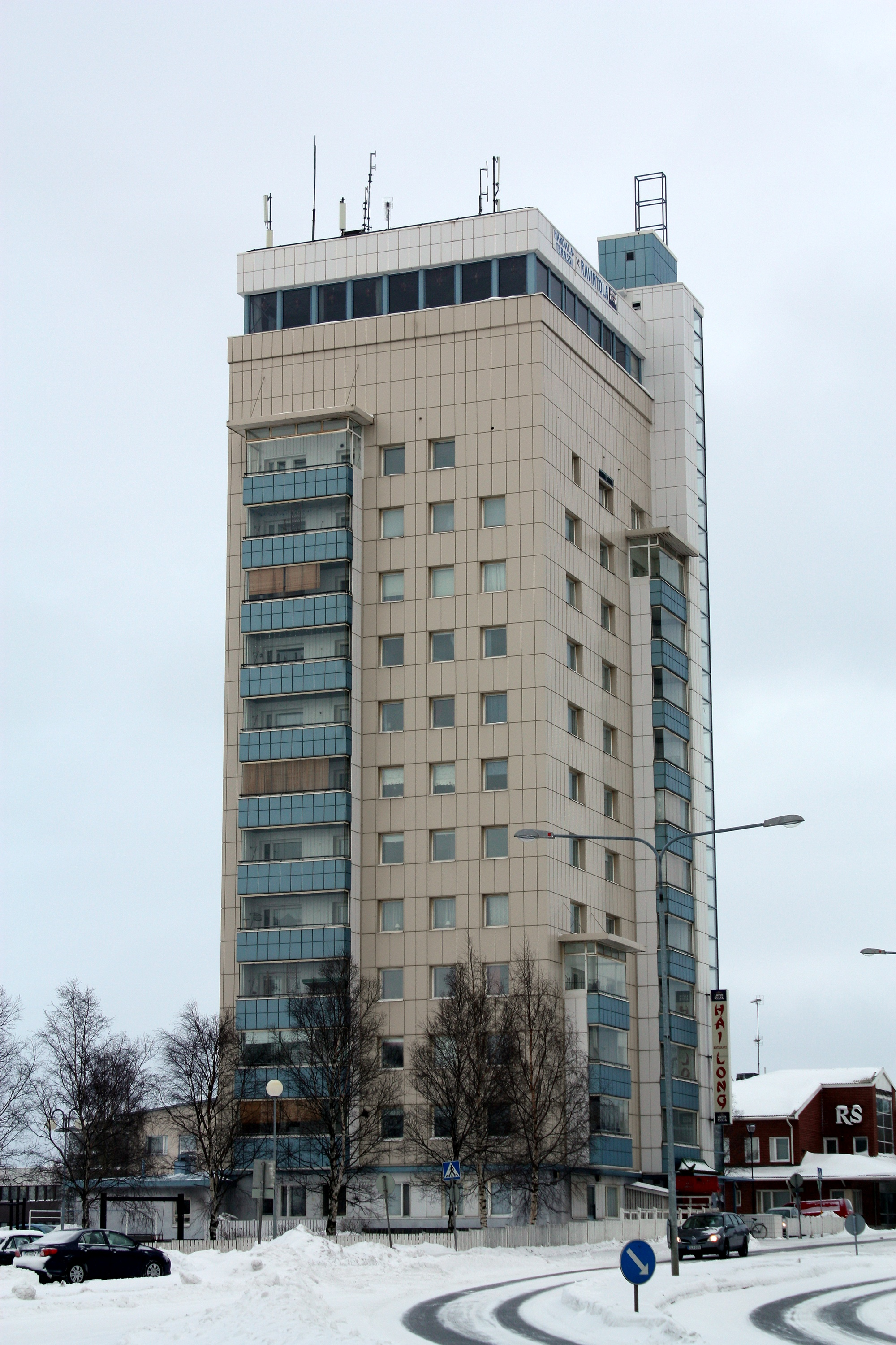 Raahe highrise/water tower has been built in 1958.